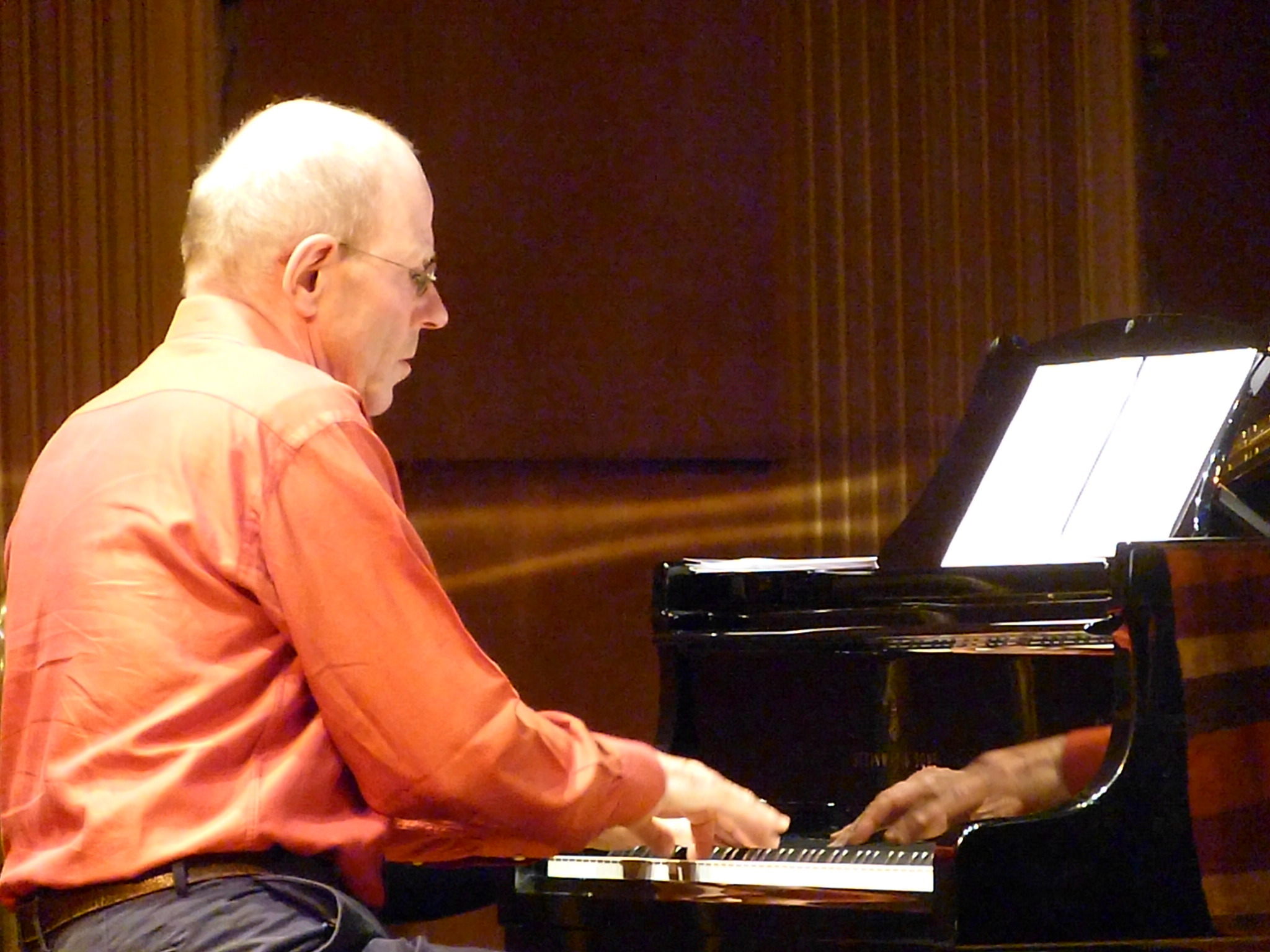 Guus Janssen in concert with the David Kweksilber Big Band at WDR, Cologne, Germany, May 6th, 2017 in the course of the Acht Brücken festival